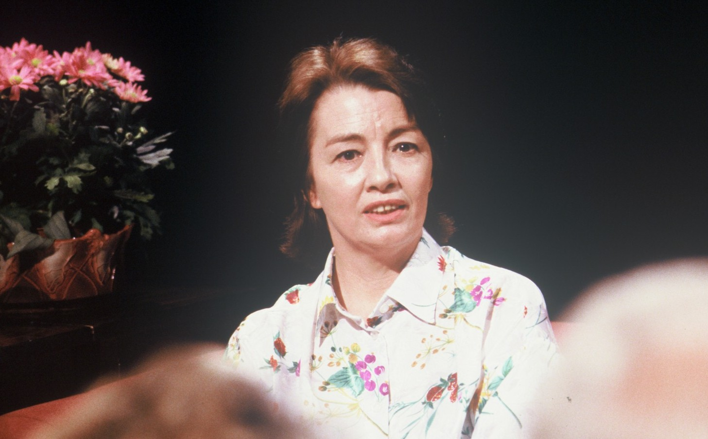 Christine Keeler appearing on television programme After Dark on 4 June 1988, (c) Open Media Ltd 1988